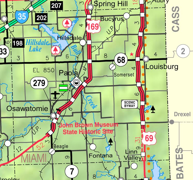 This map of Miami County, Kansas, USA, is copied at a resolution of 300 pixels/inch from the original PDF file.